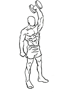 an exercise of triceps